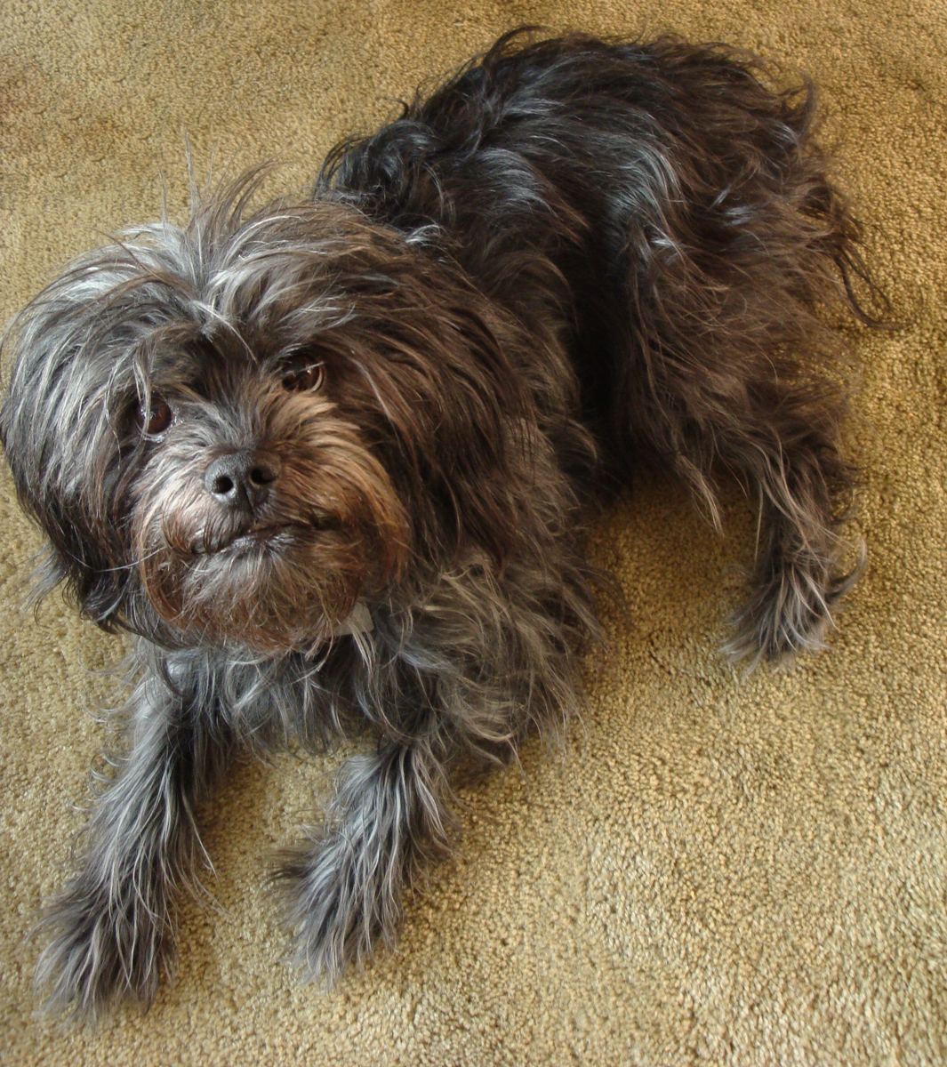 Molly is an Affenpinscher. They are difficult to photograph. I took 190 photos of her using the rapid fire feature to get this good one! I used Photoshop Elements to remove the leg of a chair that happened to be in the photo.